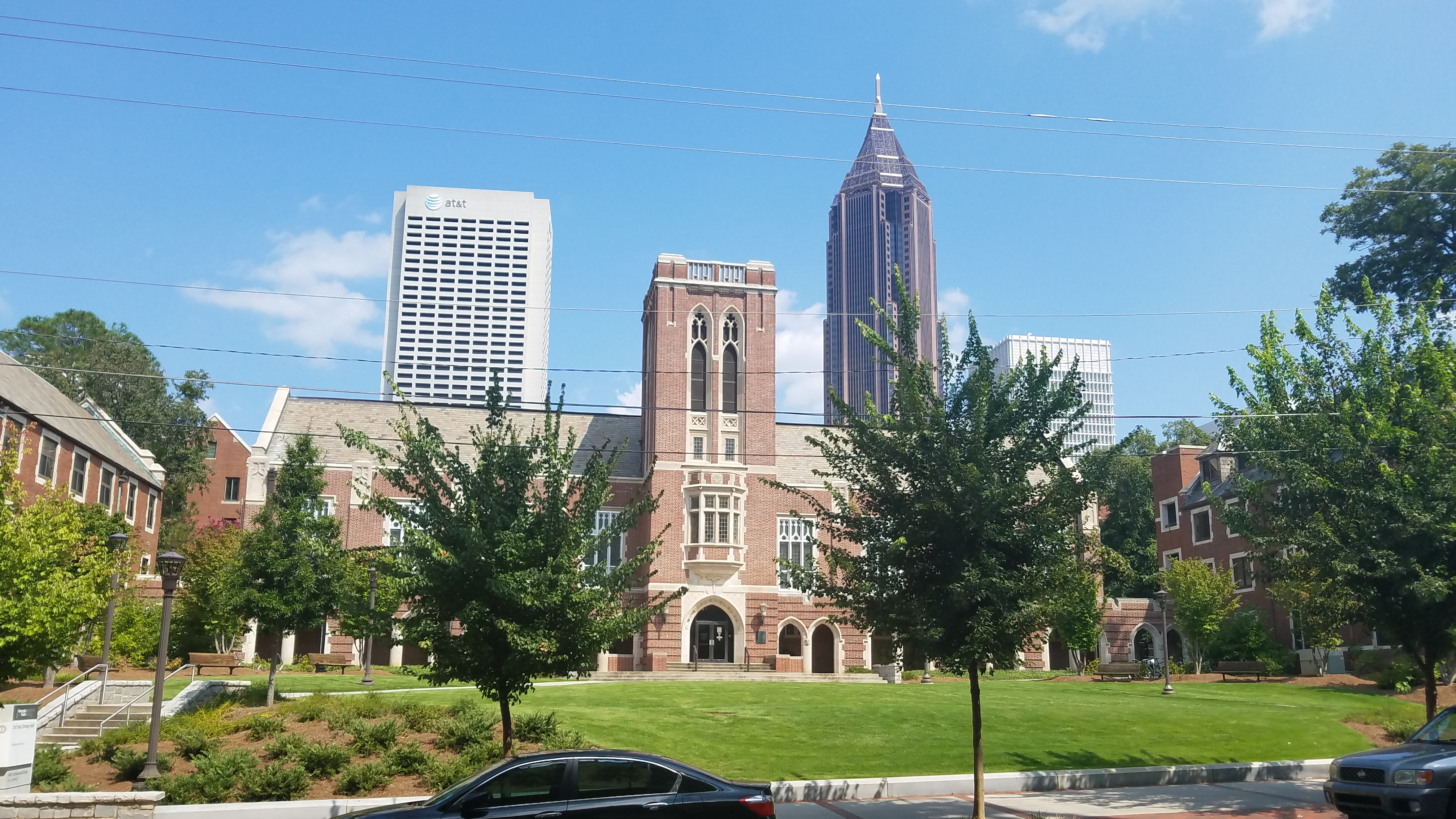 Brittain Dining Hall on the main campus of the Georgia Institute of Technology in Atlanta, Georgia. Picture taken from other side of Techwood Drive, near Bobby Dodd Stadium. Bank of America Plaza and the AT&T building are in the background.